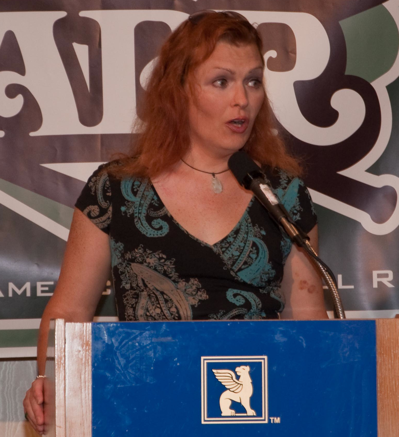 Christina Kahrl, co-founder of Baseball Prospectus.